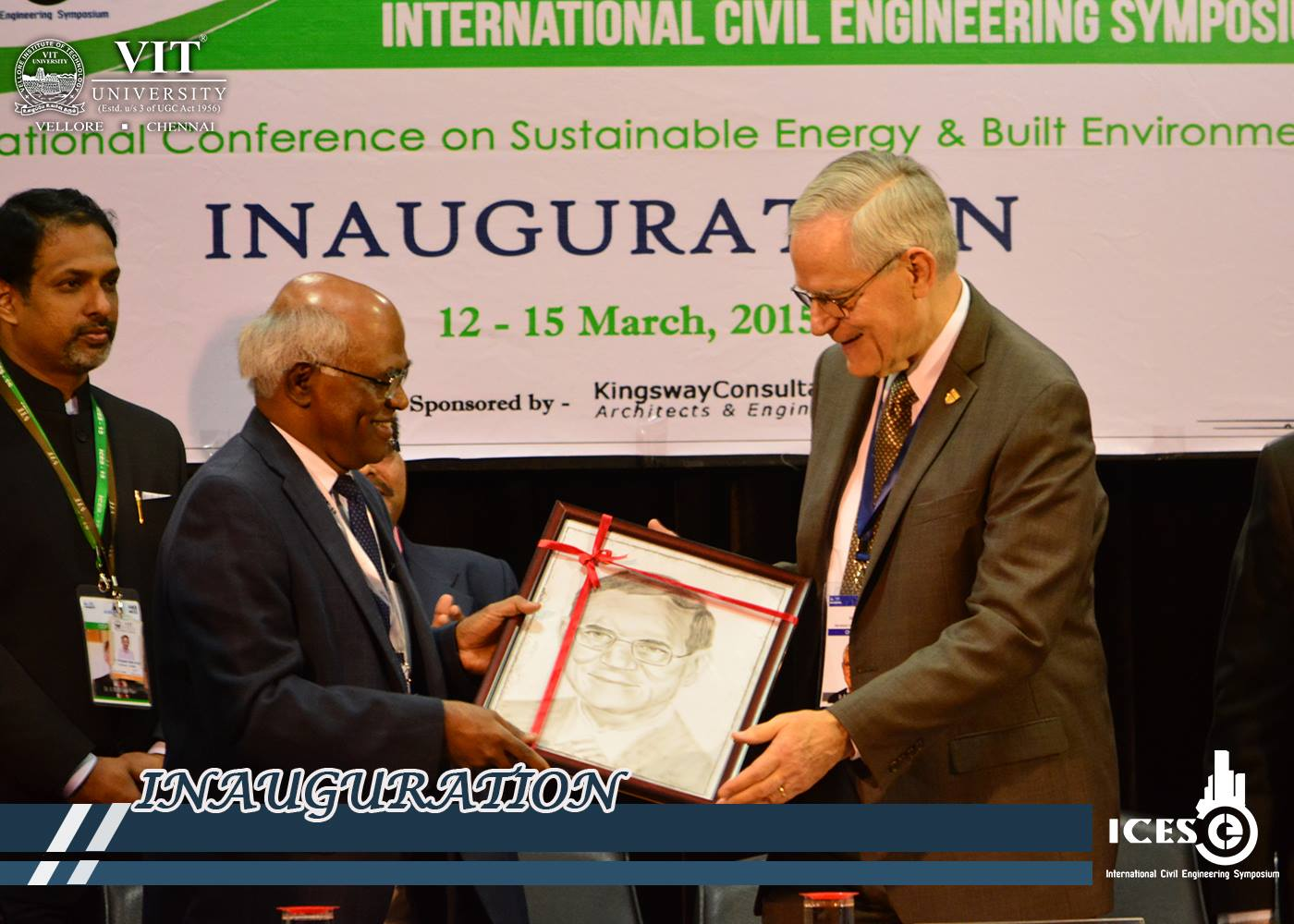 Dr. Robert Stevens receiving his portrait from Honorary Vice Chancellor during inaugral function of International Civil Engineering Symposium 2015